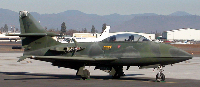 Personal photo, taken February 2007